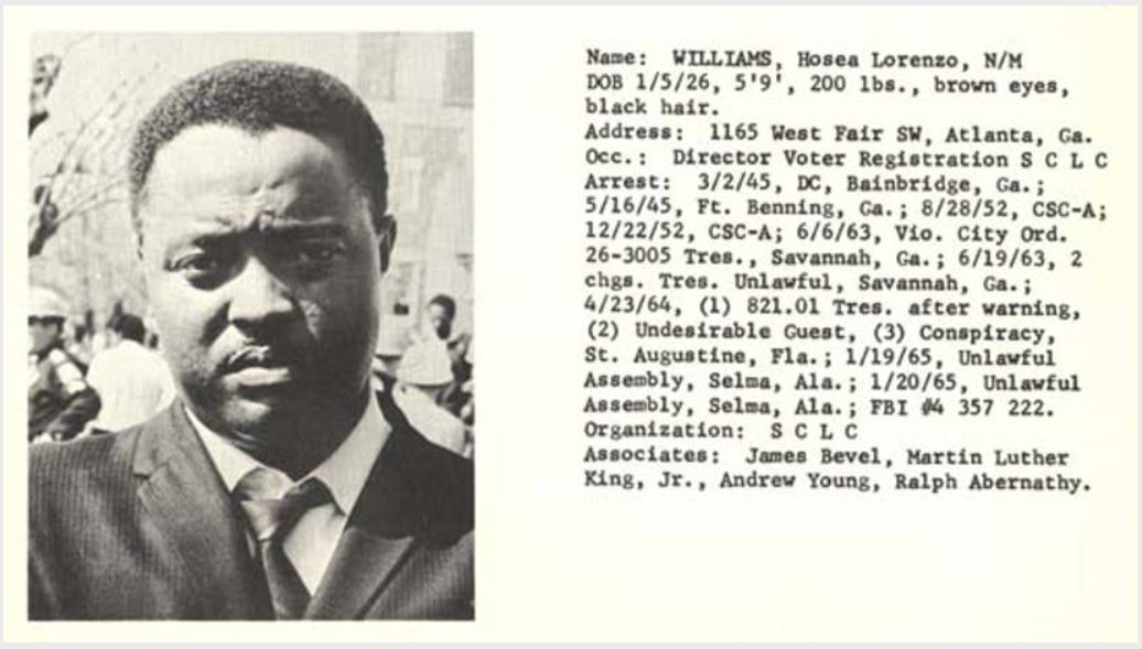 Entry for Hosea Williams (photograph plus text) in 'Individuals involved in civil disturbances' vol. 2; distributed by the Alabama Department for Public Safety during the 1960s civil rights era. This is one of a large number entries used for identifying civil rights activists. Each entry consists of one photograph and in many cases a text list of purported arrests, associates, and organizational affiliations. In addition to civil rights activists, a few entries were of individuals with American Nazi affiliations.